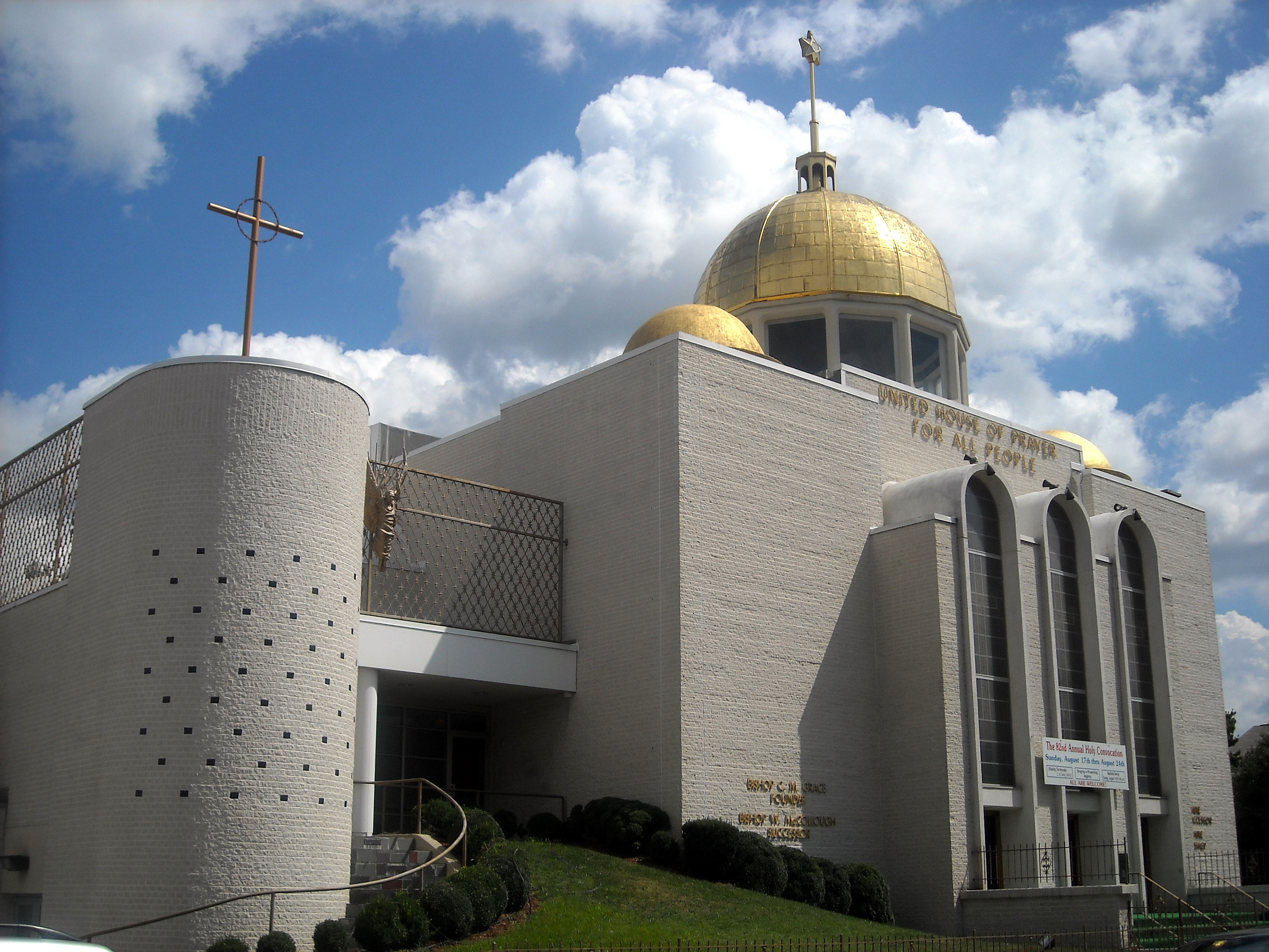 The United House of Prayer for All People at 601 M St NW, in Washington, D.C.